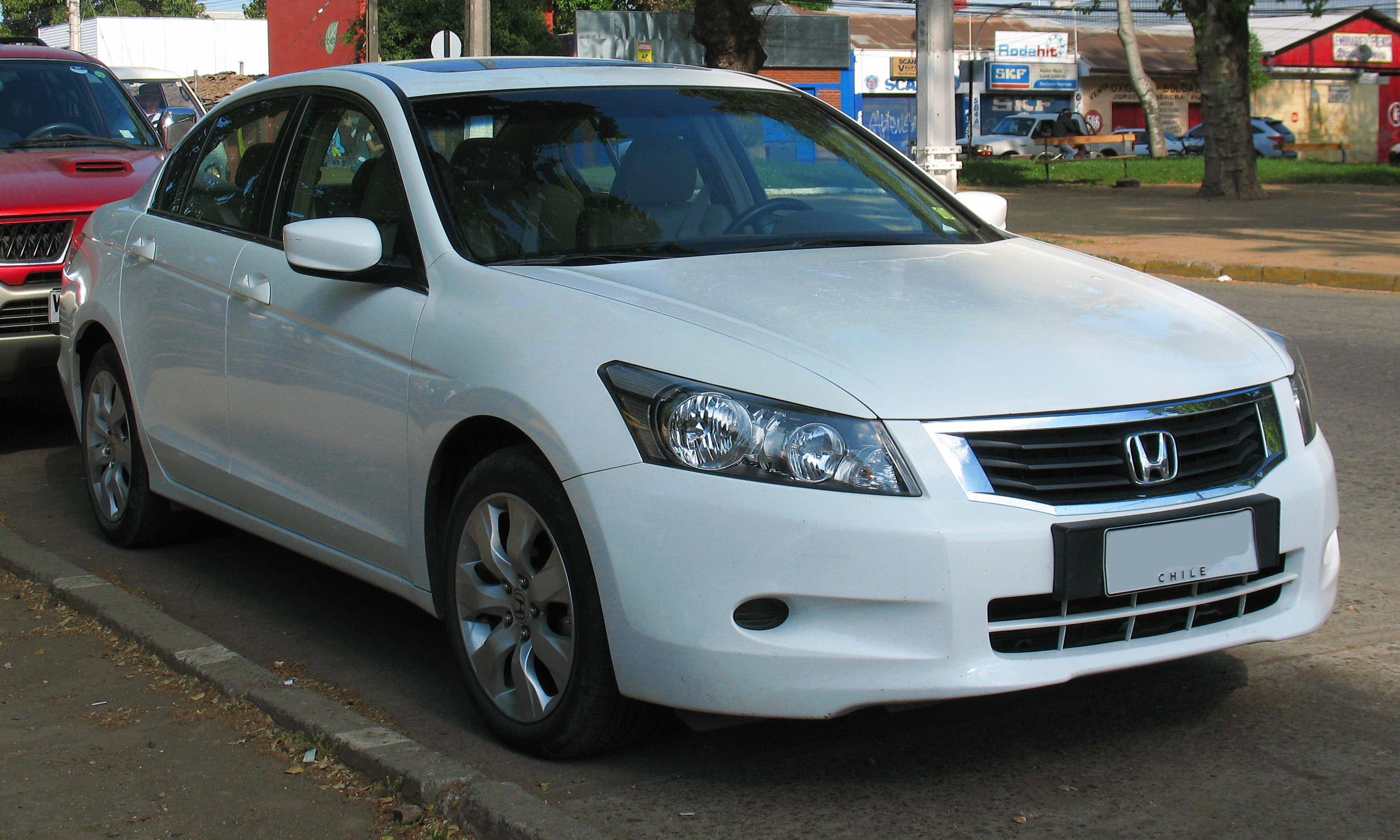 Honda Accord 2.4 EXL 2009